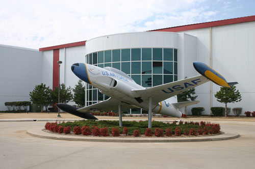 TTC Riverside campus